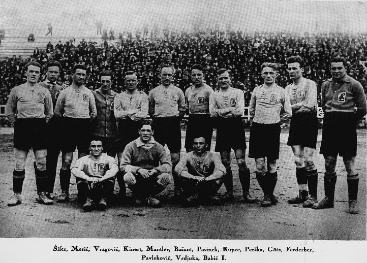 Građanski lineup that won the 1923 Kingdom of Yugoslavia championship. Standing (left to right): Šifer, Mesić, Vragović, Kinert, Mantler, Bažant, Pasinek, Rupec, Perška, Götz, Ferderber. Sitting (left to right) Pavleković, Vrđuka, Babić.